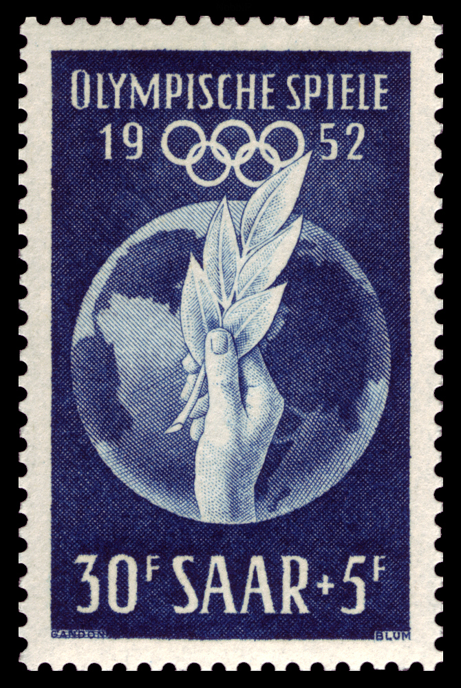 1952 Summer Olympics in Helsinki